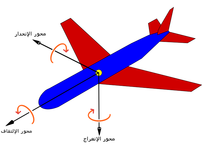 An image showing all three axises